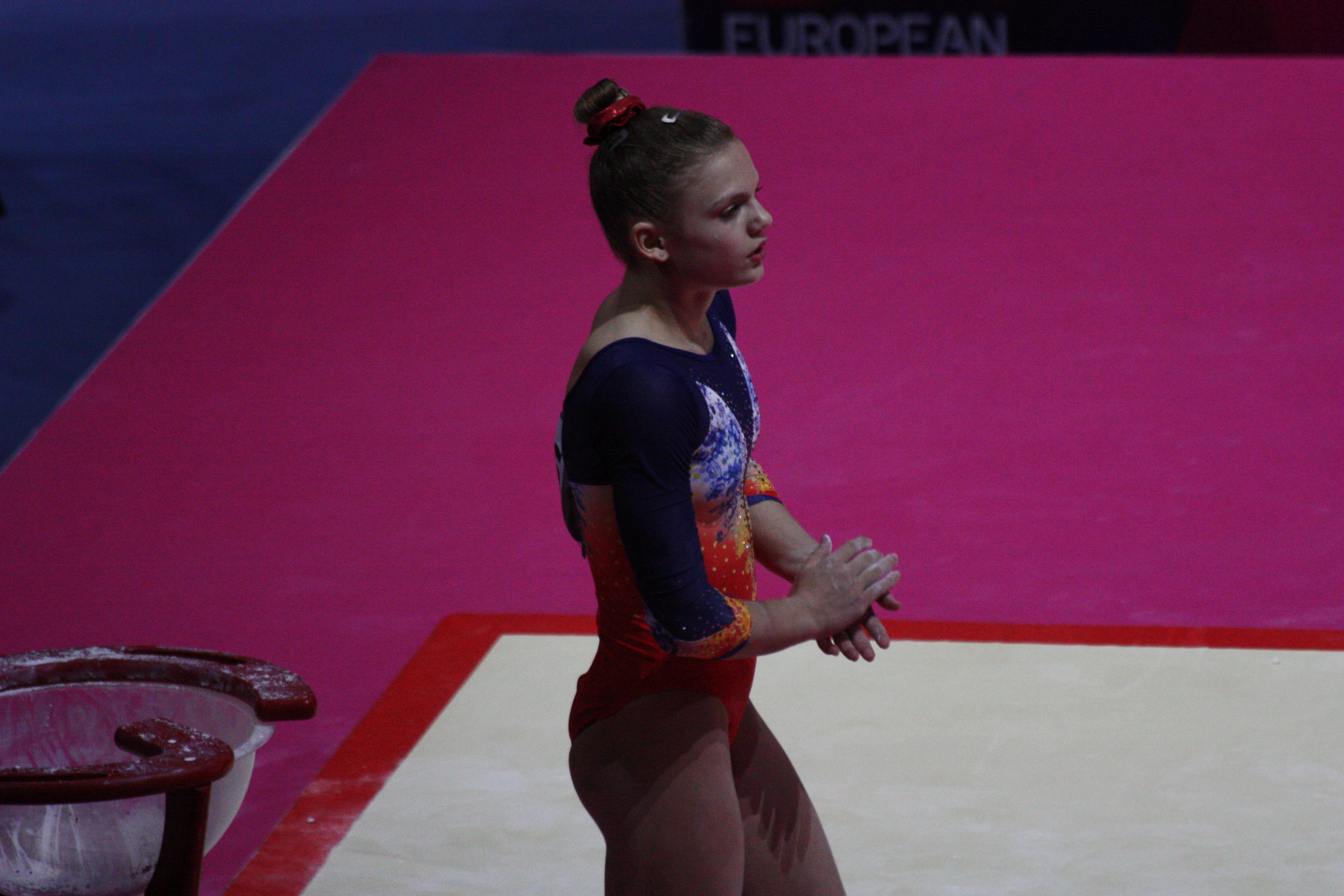 Denisa Golgotă during the qualifications at the European championships in Glasgow in 2018.